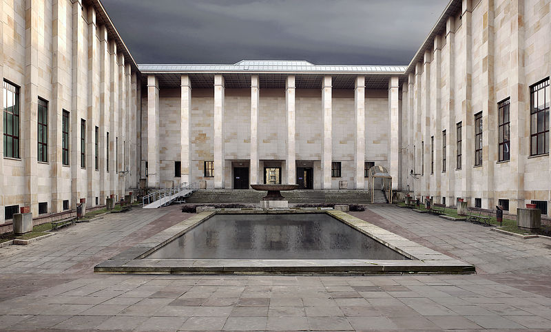 The main building of National Museum in Warsaw.